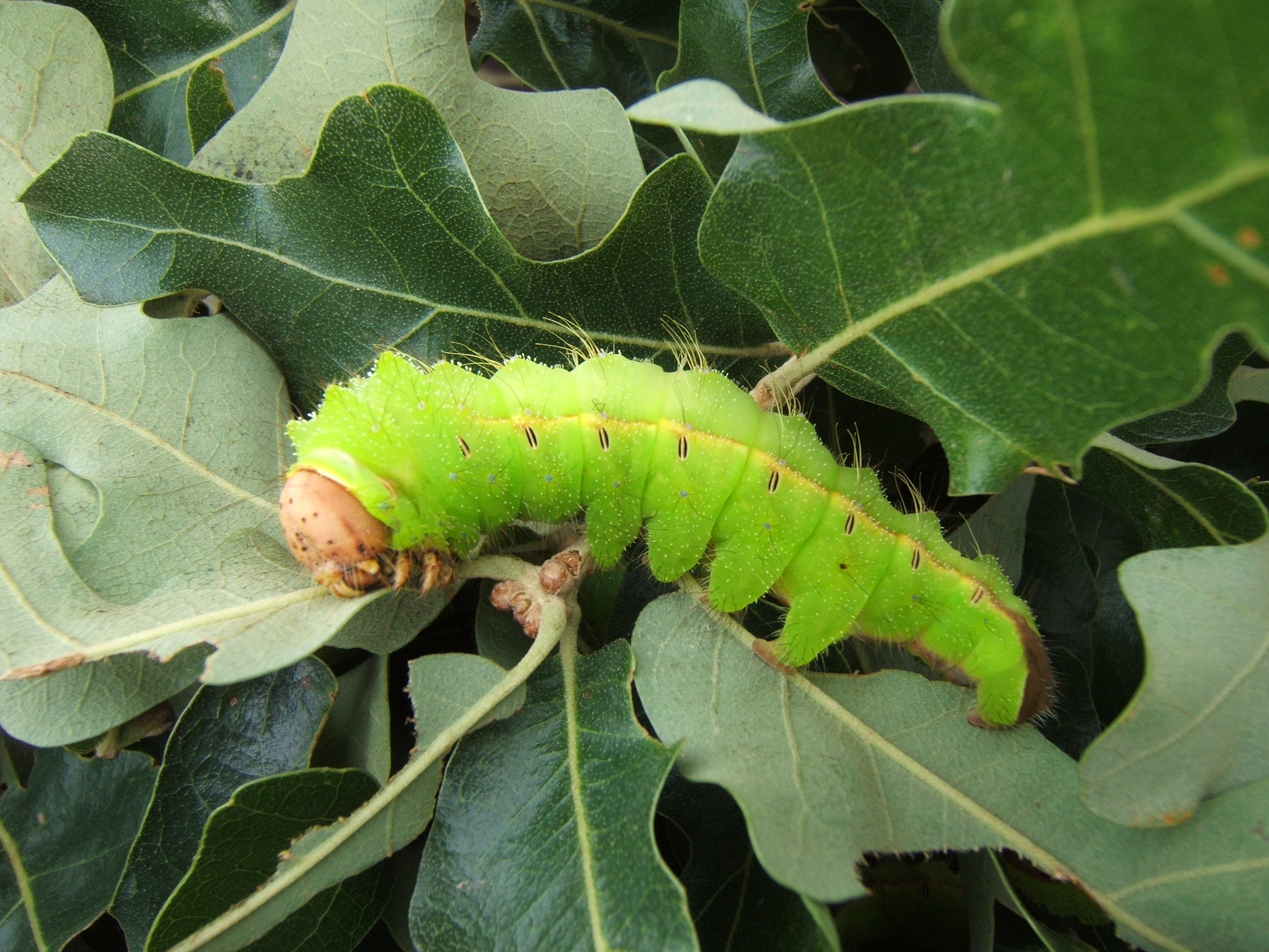 Antheraea pernyi 6th instar larvae raised on Quercus.